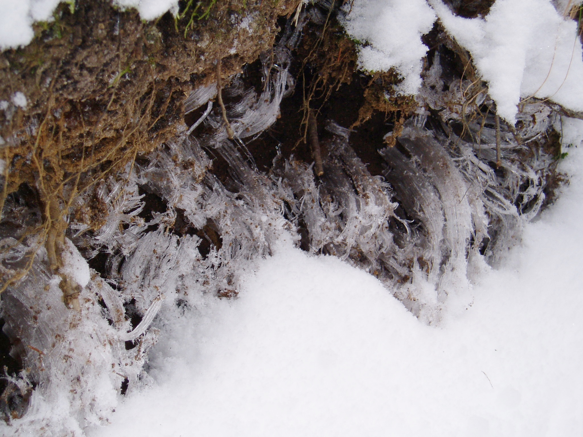 Needle ice in Flume Gorge, Franconia Notch State Park, New Hampshire, United States.